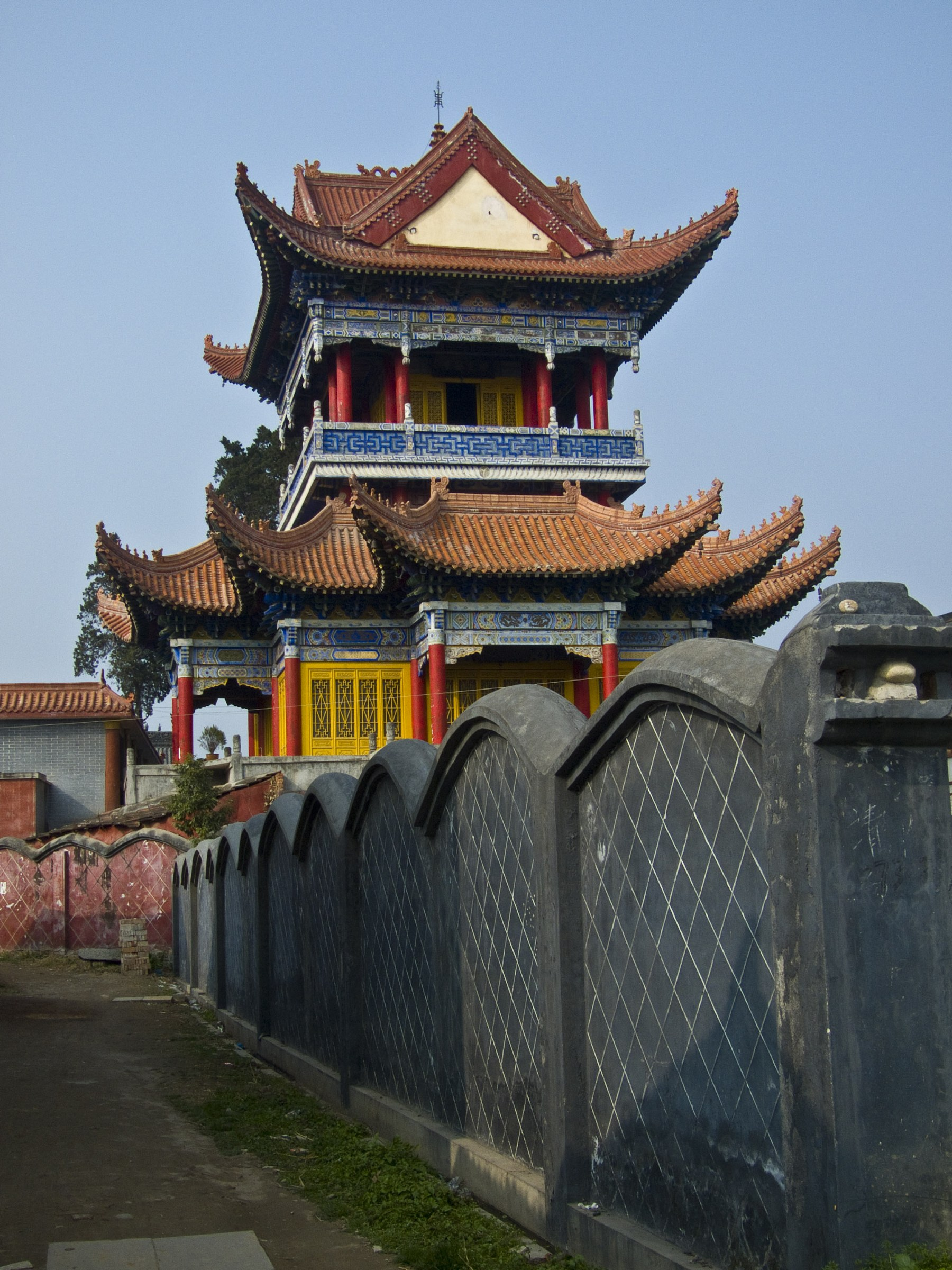 Wengong Taoist Temple in Hanzhong,Shaanxi,China